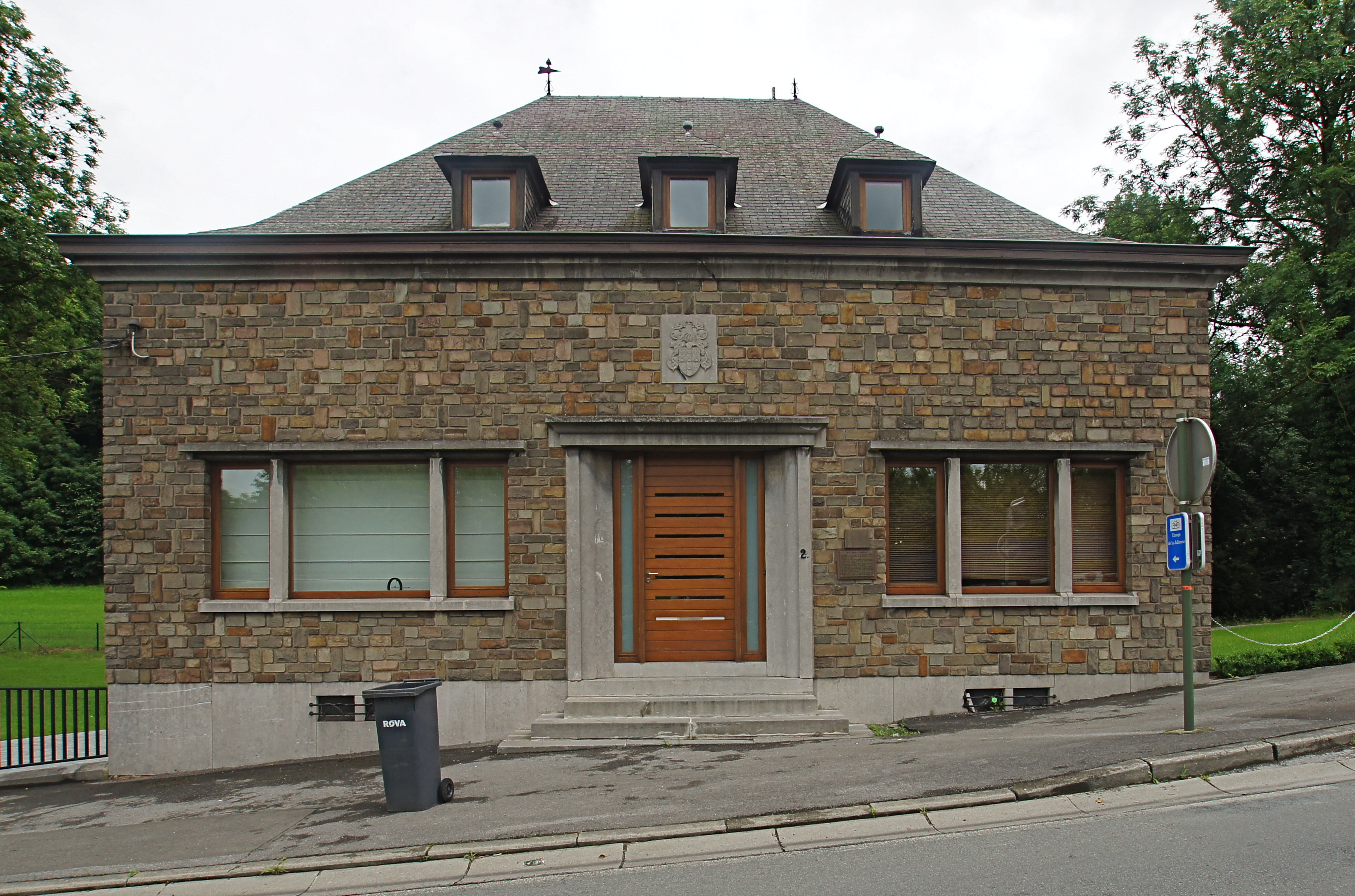 Visé (Argenteau), Belgium: Former Town hall